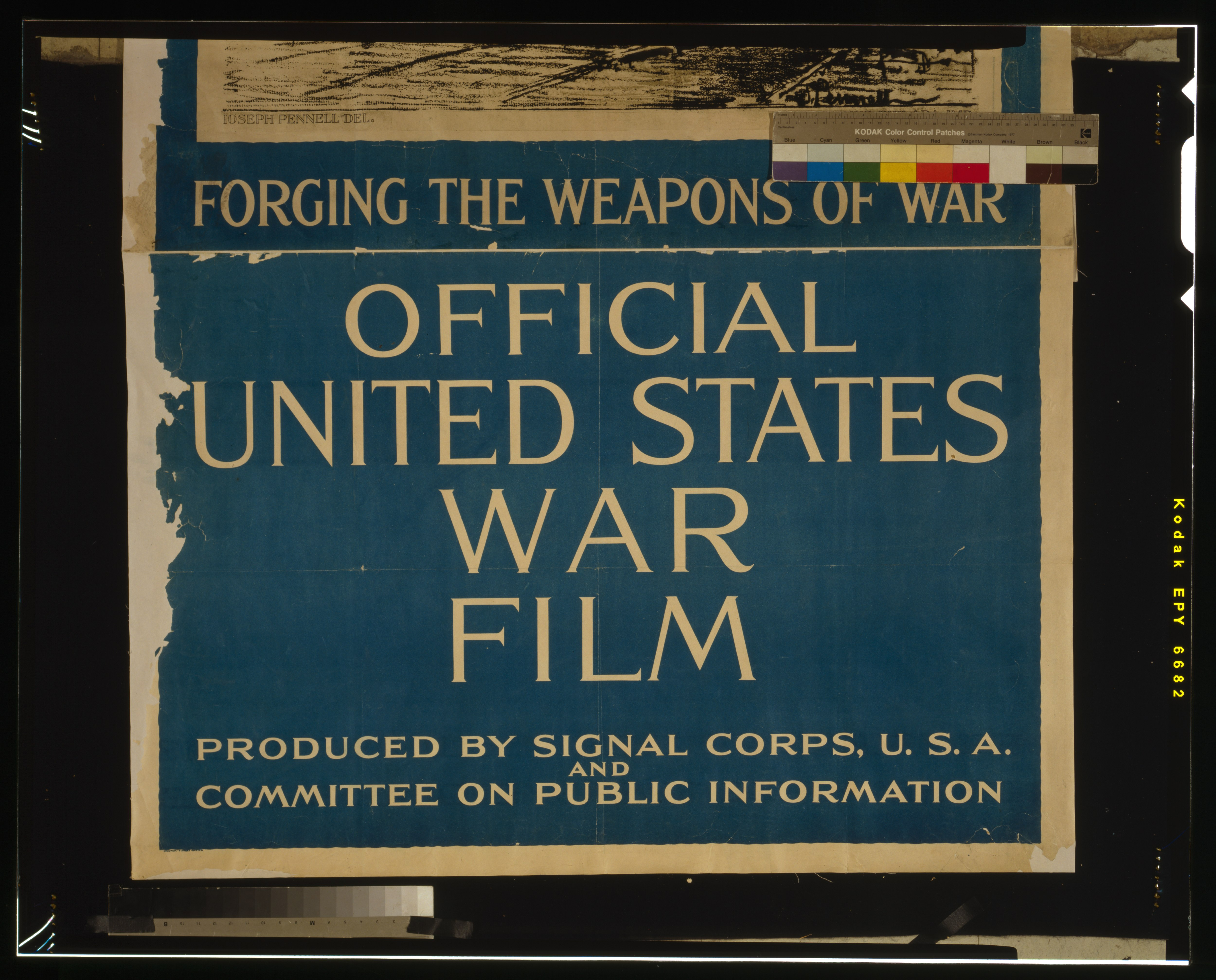 Title: Forging the weapons of war, official United States war film Abstract: Poster showing cranes in a shipyard. Physical description: 1 print (poster) : lithograph, color ; 201 x 103 cm. Notes: Ioseph Pennell del. ; Ketterlinus Philada. imp.; Produced by Signal Corps, U.S.A. and Committee on Public Information.